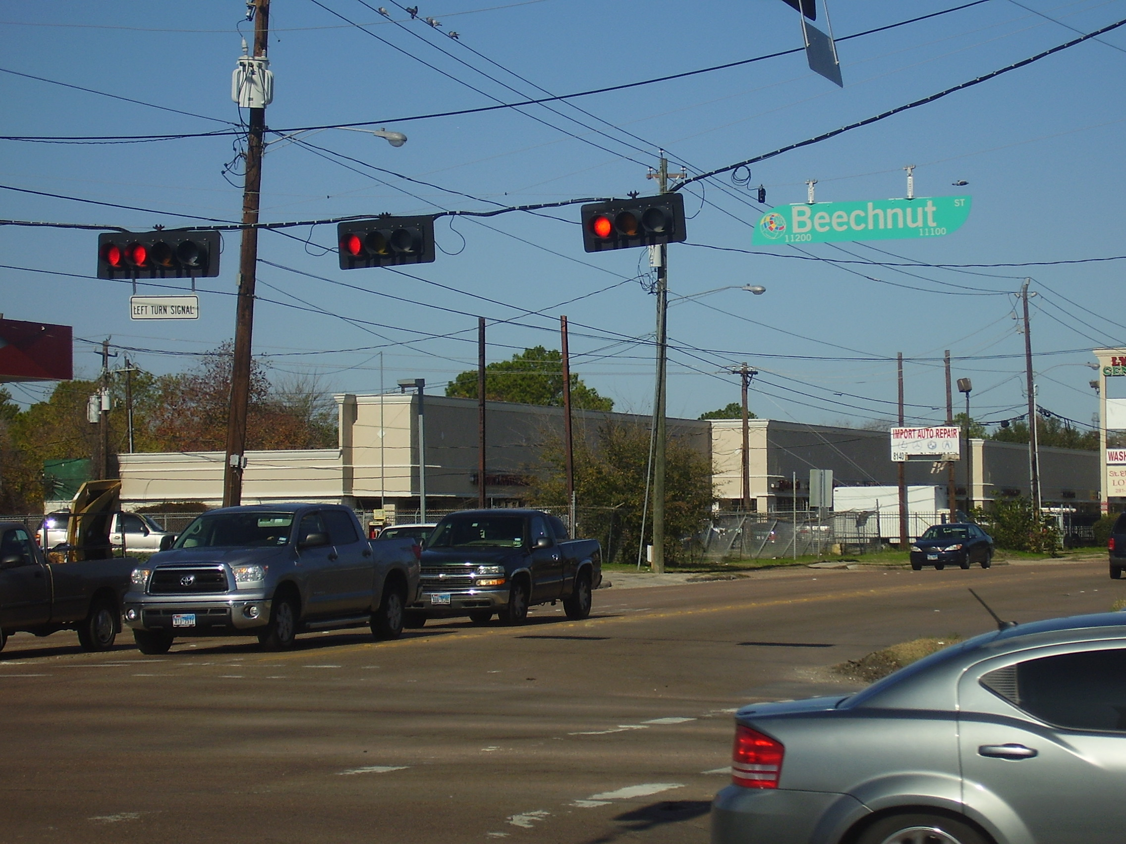 A street intersection in the International District